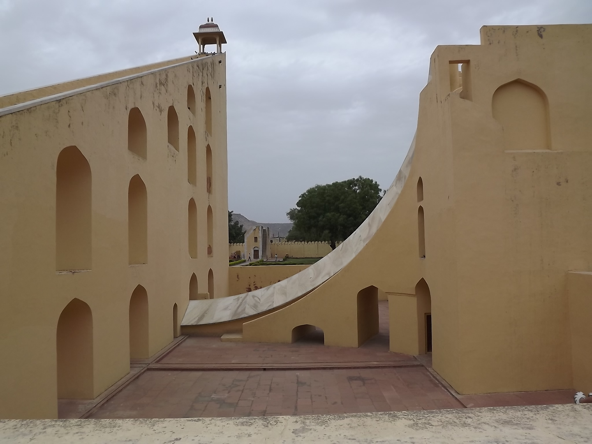 Rajasthan